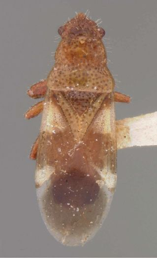 Dycoderus picturatus, macropterous lectotype male.